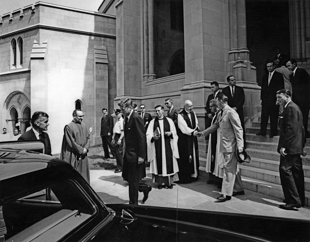 Memorial services for publisher and businessman Philip Graham at the National Cathedral, 3:00PM. President John F. Kennedy departs the Washington National Cathedral following memorial services for President and Chief Executive Officer of the Washington Post and Chairman of the Board of Newsweek, Philip Graham. At right, Military Aide to the President, General Chester V. Clifton, shakes hands with retired Episcopal Bishop of Washington, the Right Reverend Angus Dun. Also pictured: White House Secret Service agents, Gerald A. “Jerry” Behn, Win Lawson, and Emory Roberts. Washington, D.C.